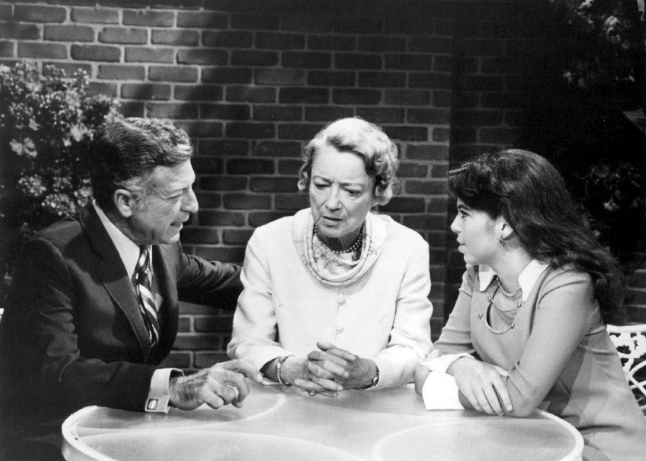 Photo of Nat Polen (Jim Craig), Peggy Wood (Kate Nolan), and Amy Levitt (Kathy Craig) from the daytime drama One Life to Live.